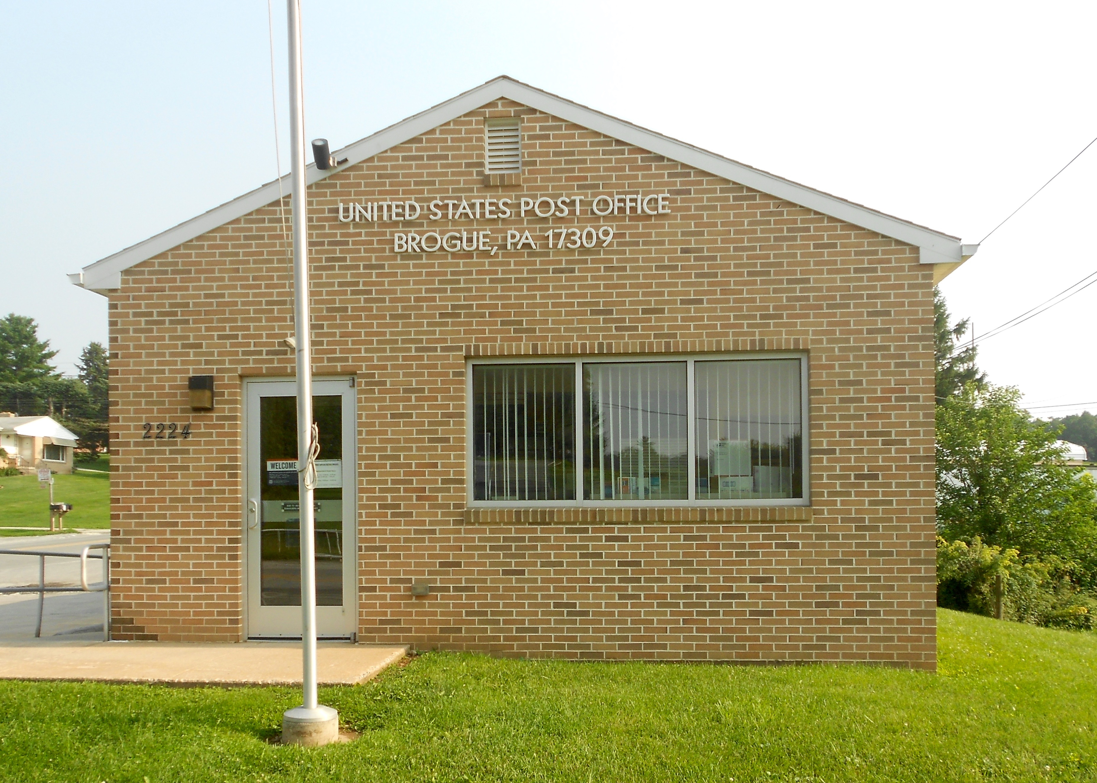 Post office - zip code 17309 - in Brogue, Chanceford Township, York County, Pennsylvania. Note that there is also a Brogueville in York County, about 3-4 miles southwest of Brogue, but this photo is not of Brogueville!